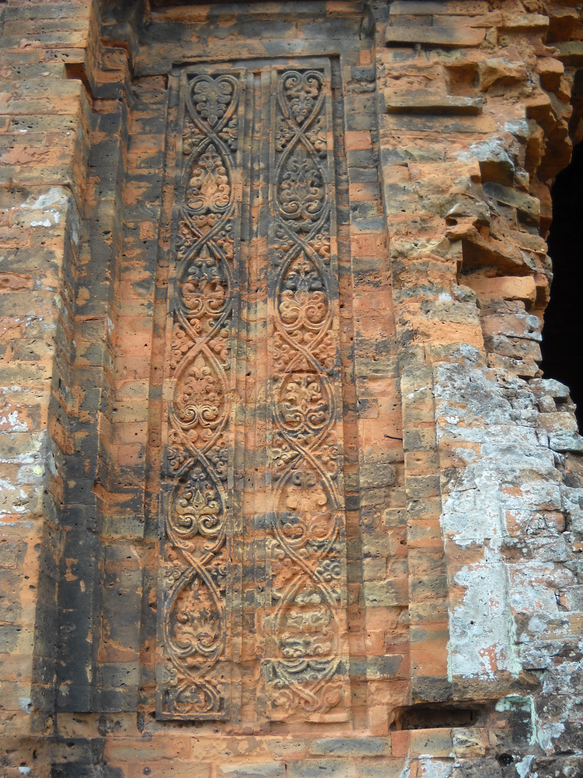 Brickwork in Cham tower Bánh Ít (Bình Định)